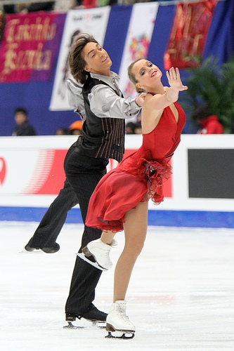 Ekaterina Pushkash / Jonathan Guerreiro at the 2010-2011 Junior Grand Prix of Figure Skating Final.